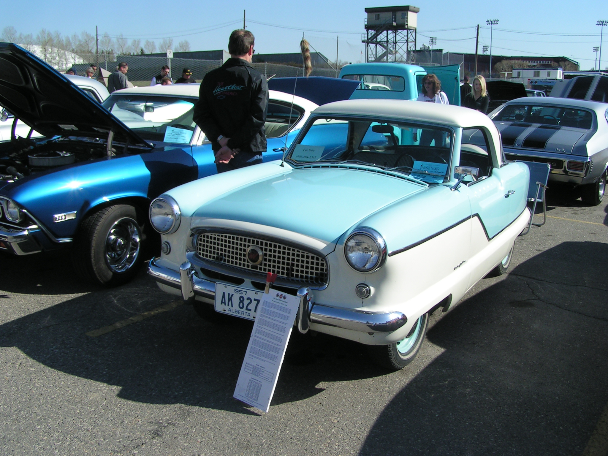 1957 Nash Metropolitan